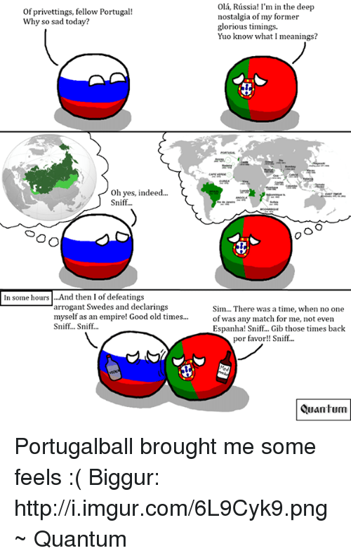 Hello Russia